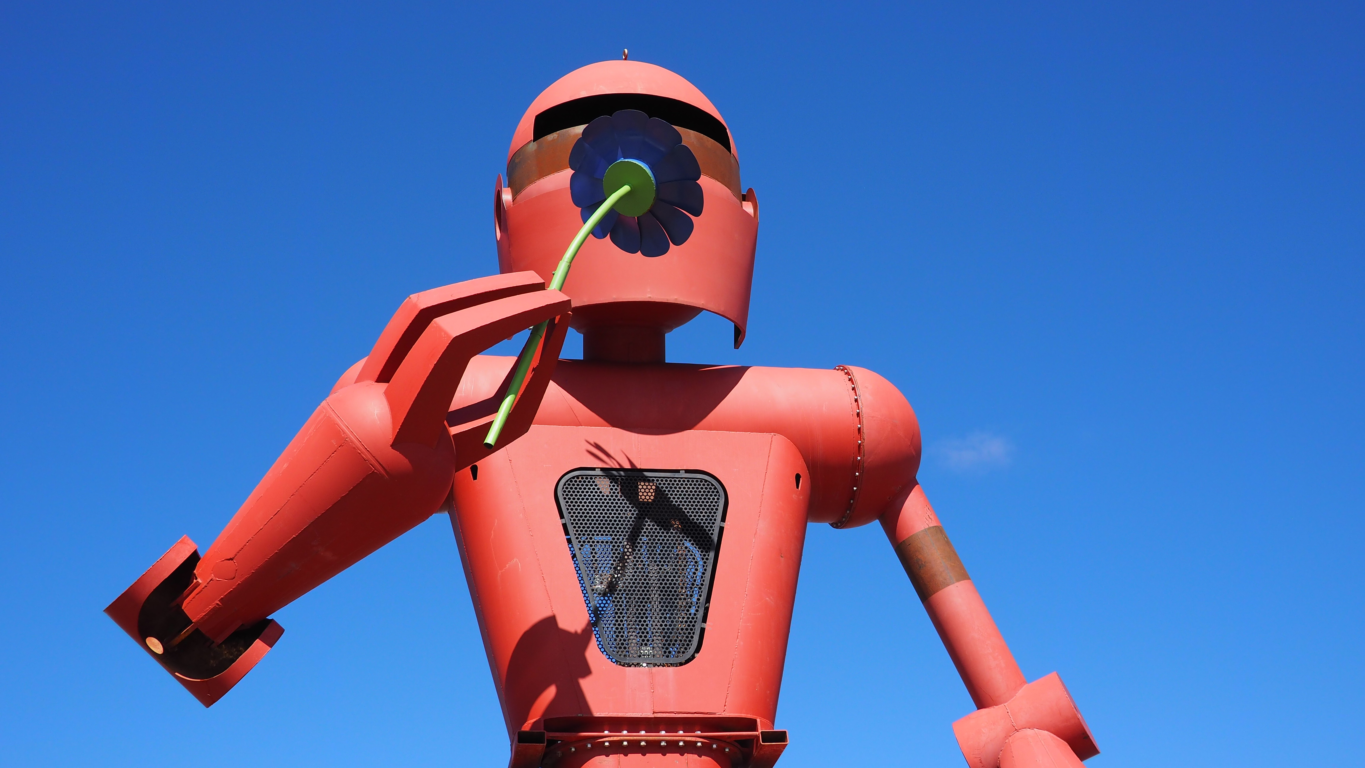 The torso and head of "Becoming Human," Christian Ristow's 30-foot giant robot sculpture, installed in front of the Meow Wolf artist studio in Santa Fe, New Mexico.